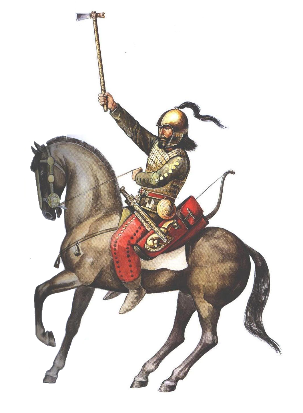 Warrior of Scithins, second part of VII and VI century BC